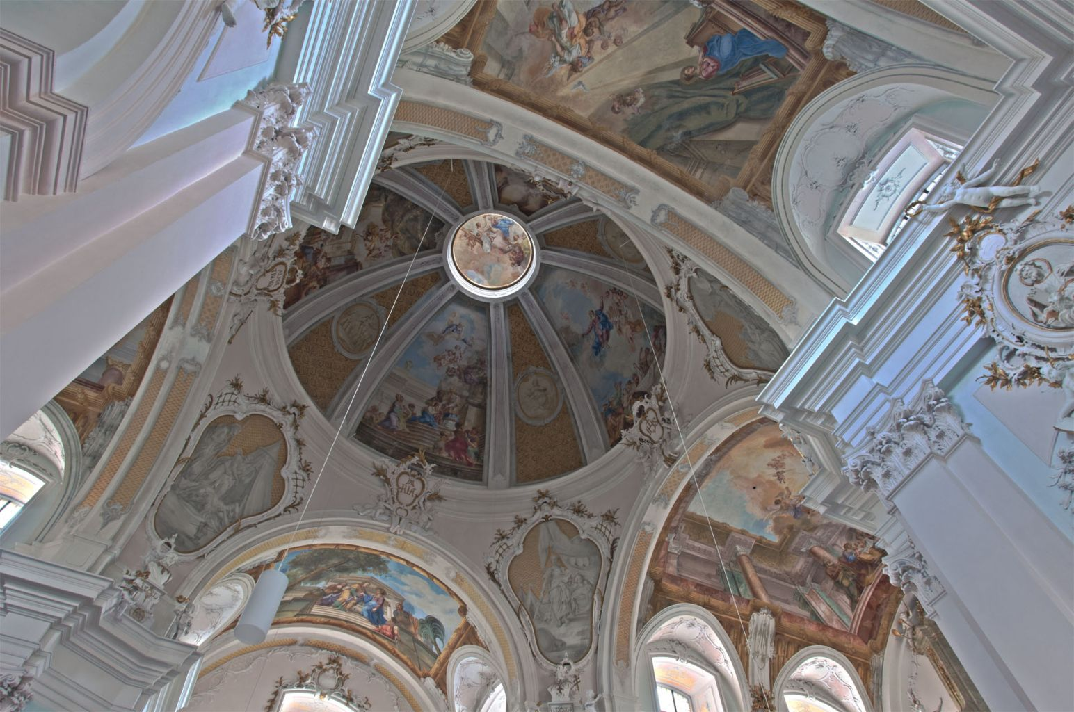 Church Maria Immaculata in Büren, ceiling view